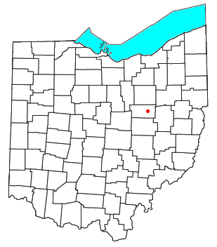 Locator map of the unincorporated community of Berlin in Holmes County, Ohio, United States.